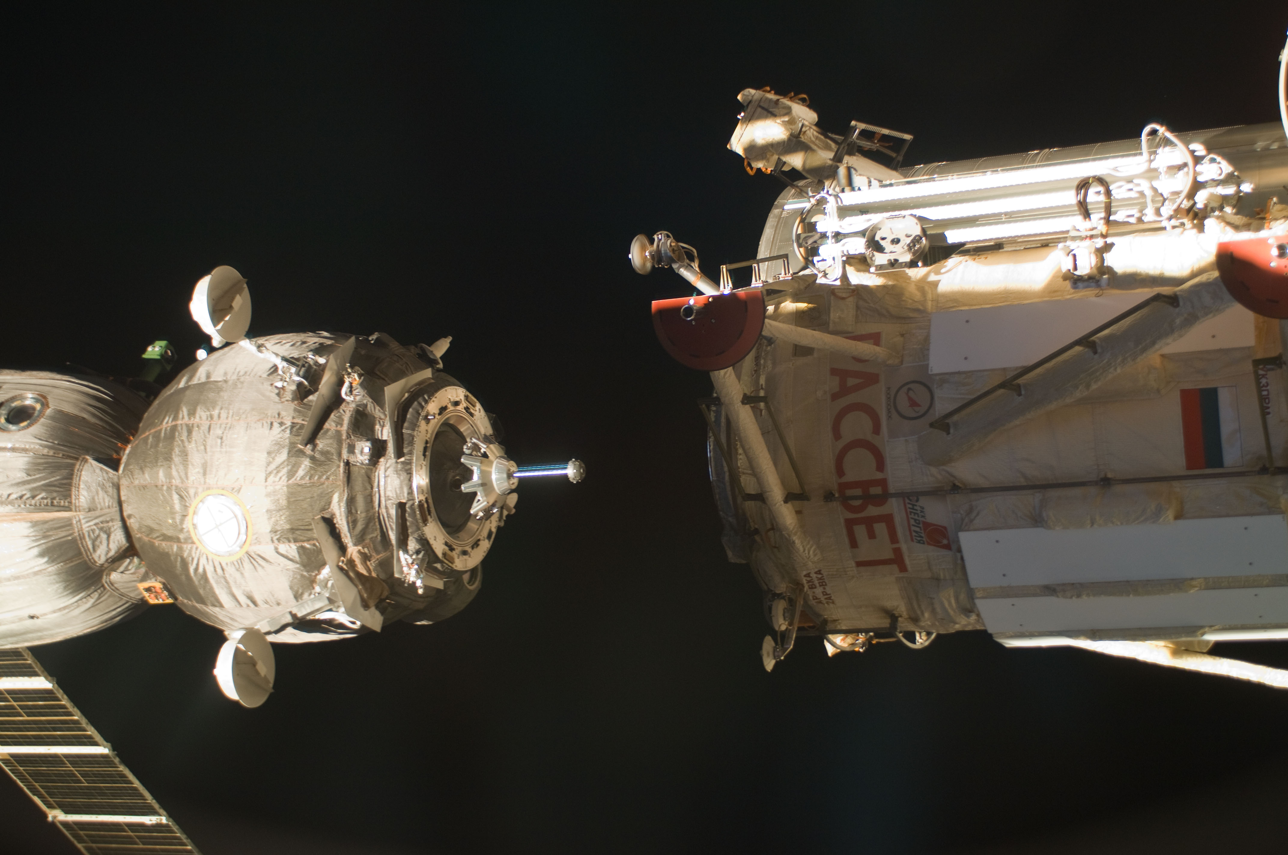 With the three Expedition 30/31 crew members aboard, the Soyuz TMA-03M spacecraft (left) eases toward its docking with the Russian-built Mini-Research Module 1 (MRM-1), also known as Rassvet, Russian for "dawn." The docking, which once more enables six astronauts and cosmonauts to work together aboard the Earth-orbiting International Space Station, took place at 9:19 a.m. (CST) on Dec. 23, 2011.